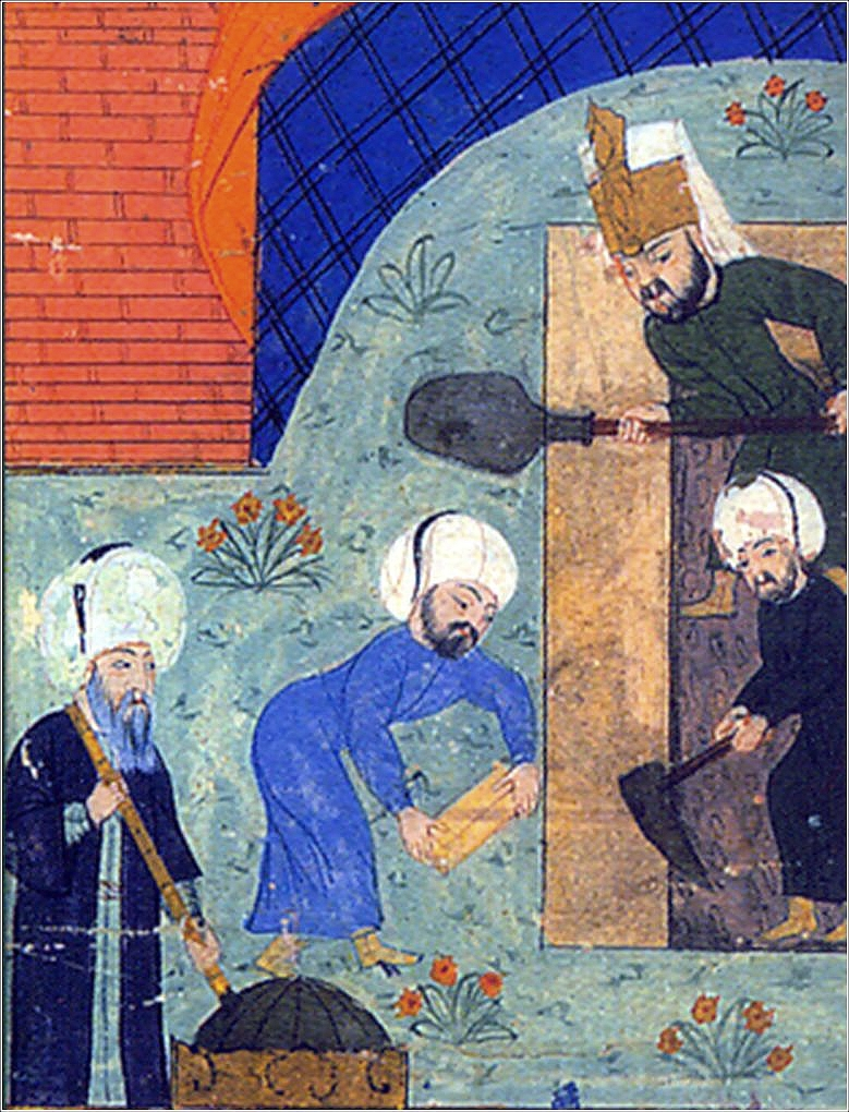 maybe Mimar Sinan (left) depicted holding a wooden measuring stick overseeing the construction of the mausoleum for Sultan Süleyman I. (the Magnificient) 1566. from Tārīkh-i Sulṭān Sulaymān by Seyyid Lokman (Detail). The manuscript is in the Chester Beatty Library, Dublin (ms. T. 413, fol. 115v.)